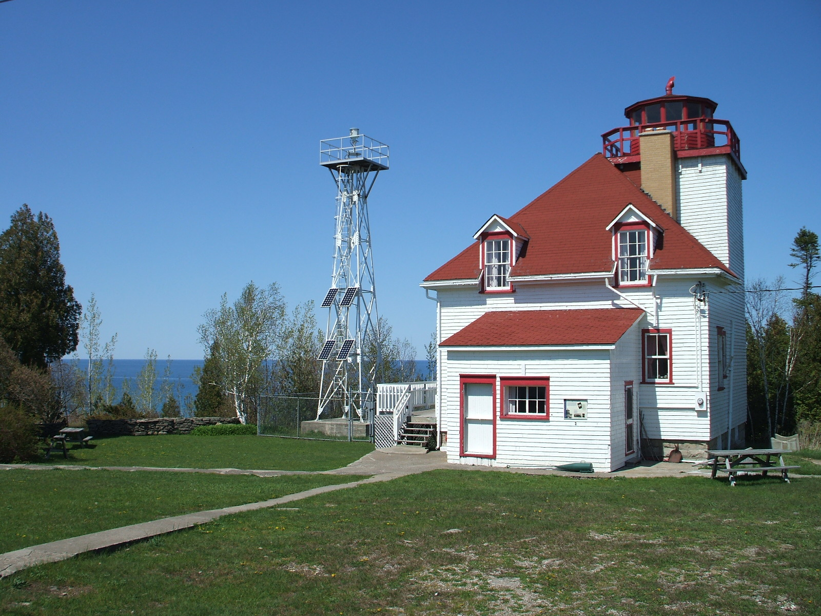 Light Station, Cabot Head, Bruce Peninsula, Ontario, Canada